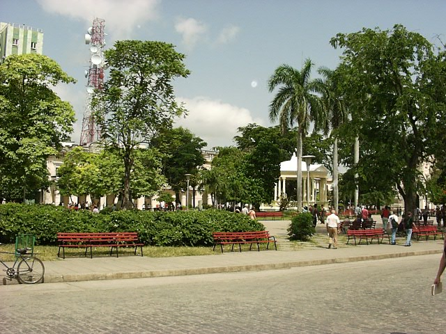 View of the Parque Vidal in Santa Clara, Cuba